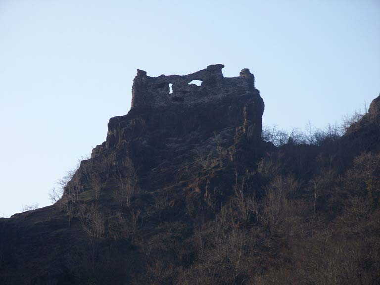 Chkheri castle, Georgia